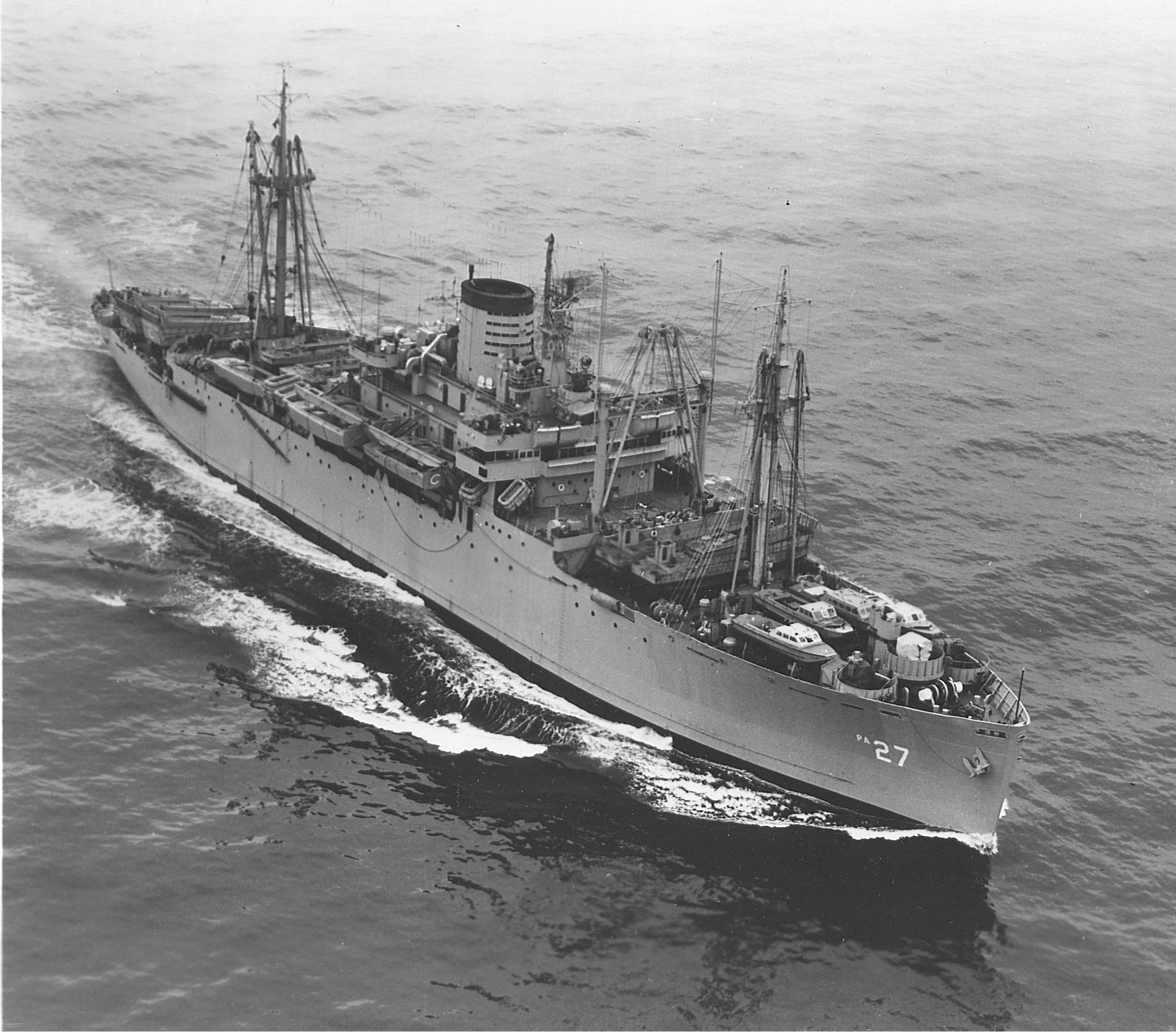 USS George Clymer (APA-27) underway, circa in the 1950s.